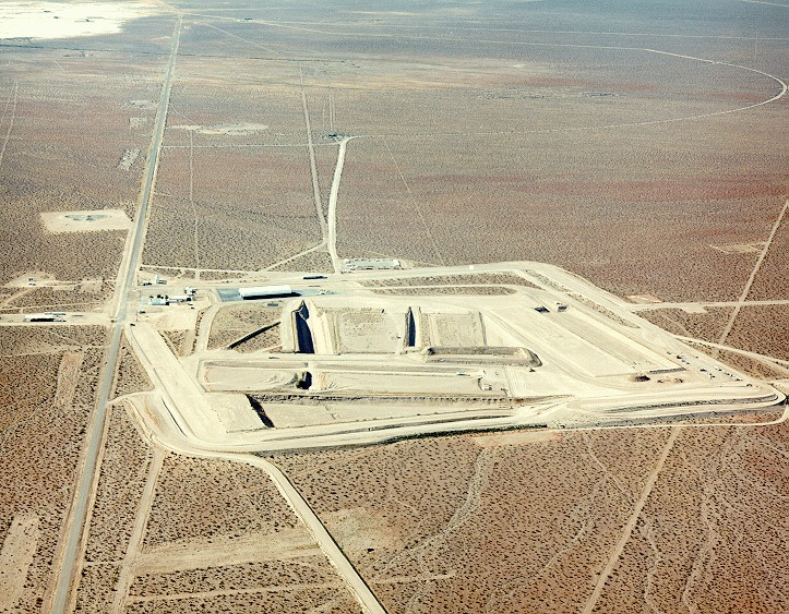 Nevada Test Site, Area 5. Aerial View of the Area 5 Radioactive Waste Management Site.